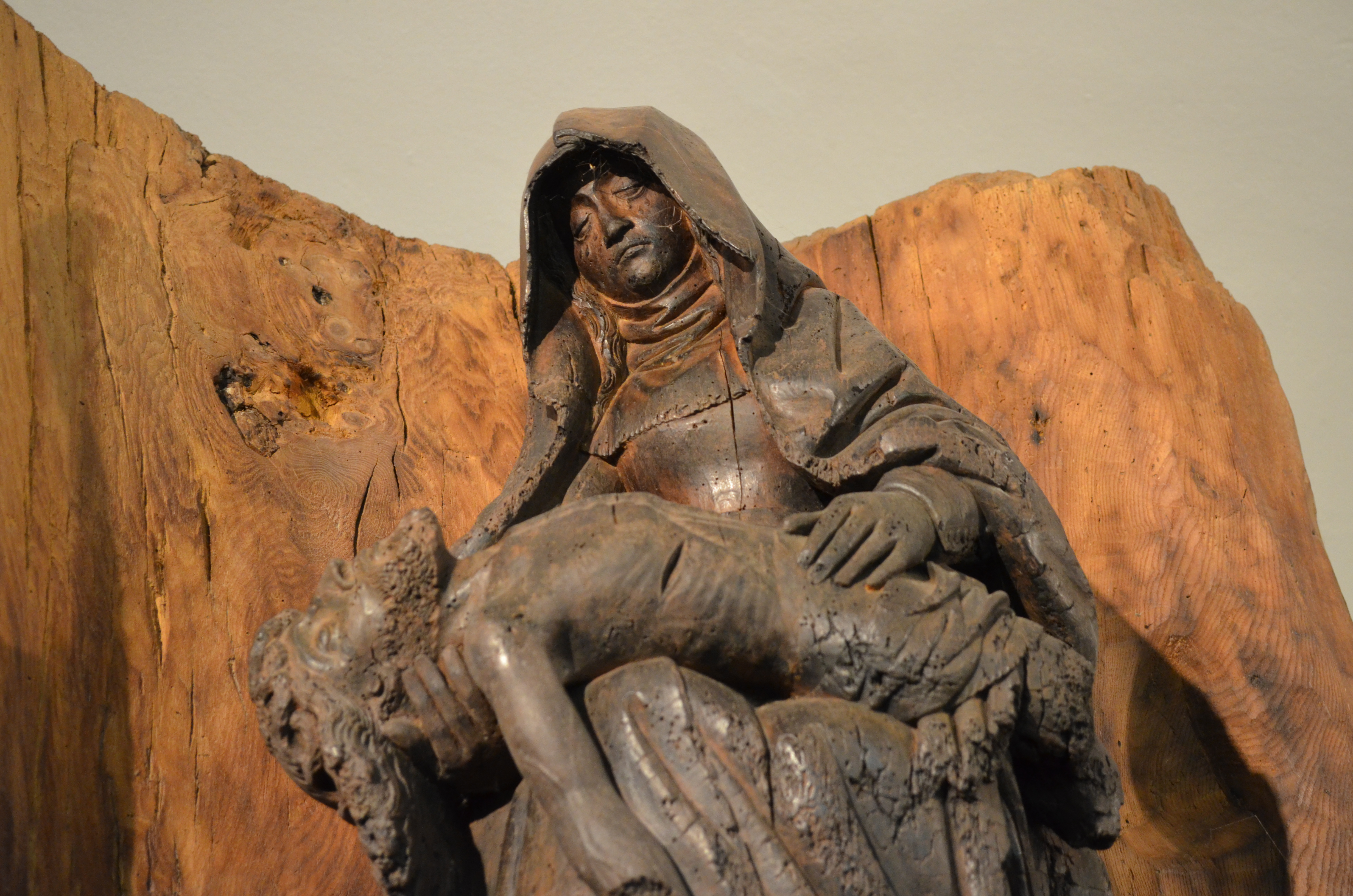 Chapelle de l'Orme ("chapel of the elm") at Saint-Martin-du-Mont (Ain) in France: Pietà (XVIe century) installed on an elm.